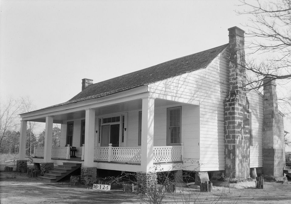 Old Frame House, U.S. Highway 84 (State Highway 12), Perdue Hill, Monroe County, AL. FRONT ELEVATION.